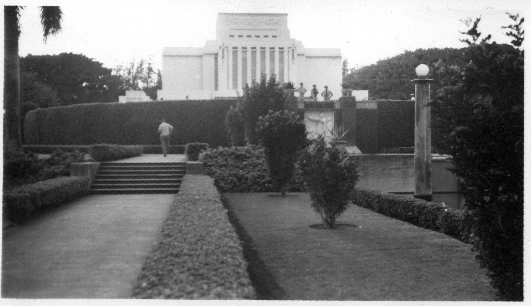 The Hawaii Temple of the Church of Jesus Christ of Latter-day Saints.